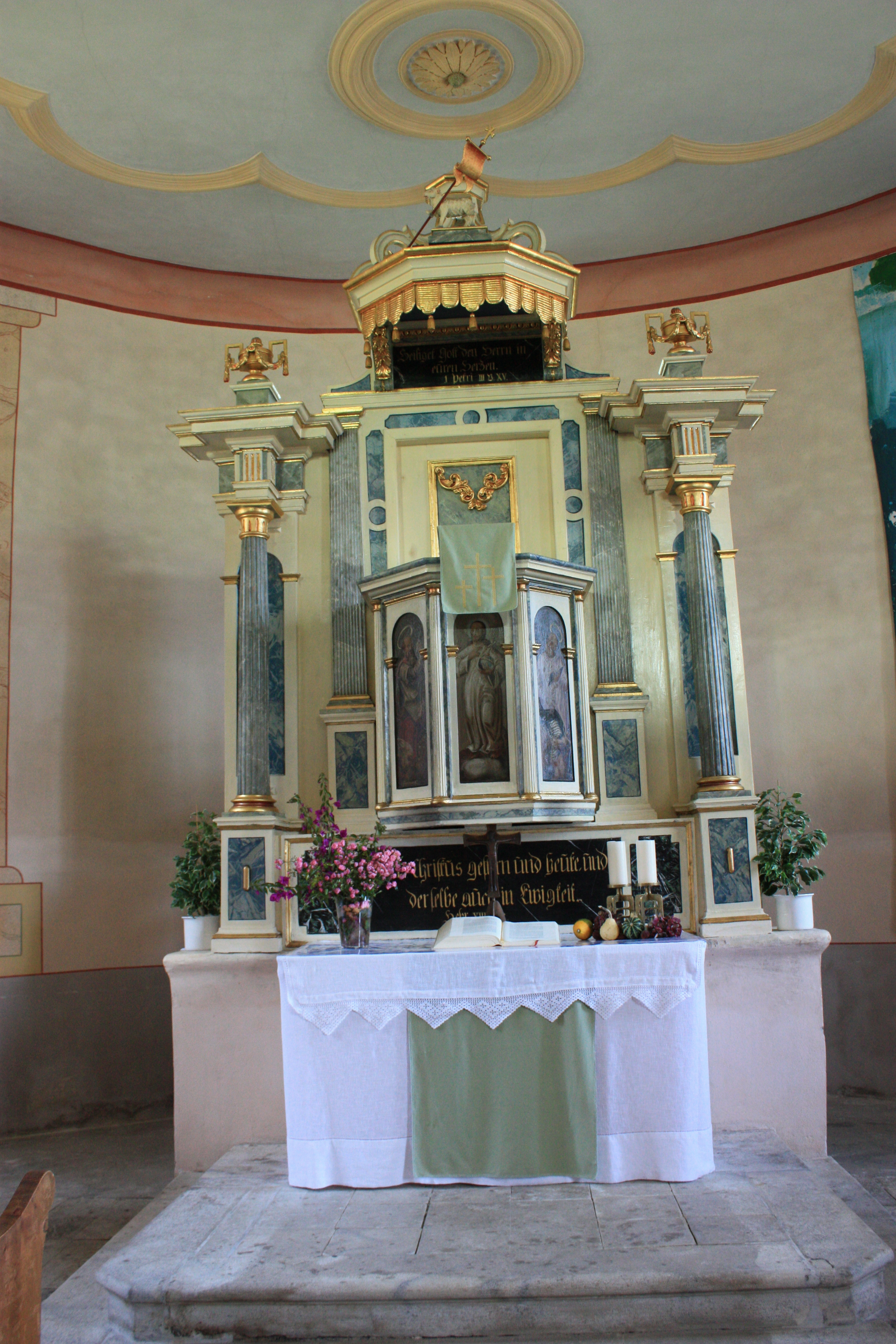 Lutherian church - pulpit-altar Locality: Tschöran Community:Steindorf am Ossiacher See